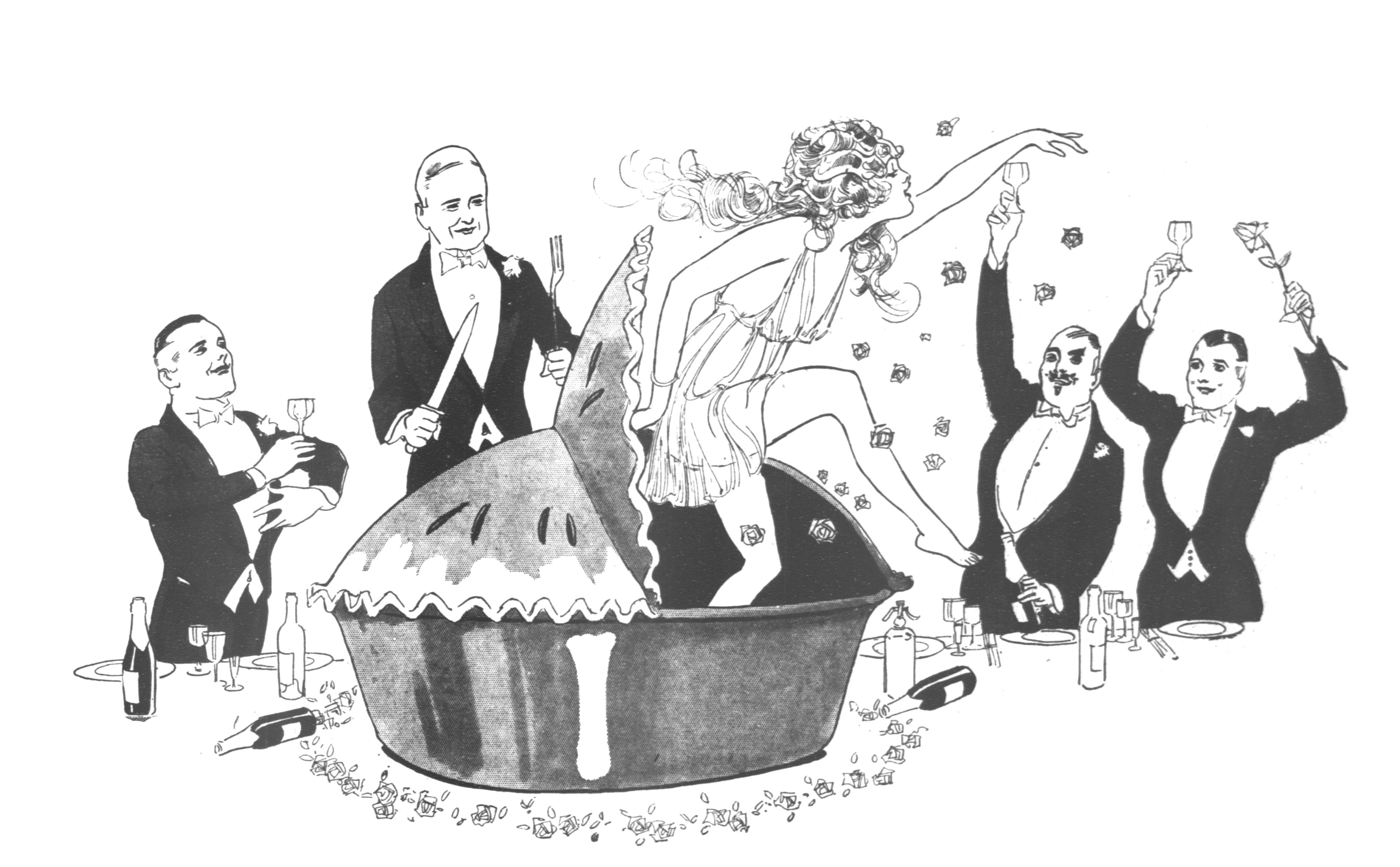 A graphical tribute to the famous 1895 "girl-in-the-pie" dinner of James L. Breese "who undertook to give a dinner in his studio which should surprise even such sophisticated art patrons as Stanford White. As the piece de resistance of the dinner Mr. Breese conceived the happy idea of having an enormous pie brought in on the shoulders of four of the waiters. Out of the pie stepped Miss Susie Johnson, graceful young artist's model, unencumbered with much if any drapery."